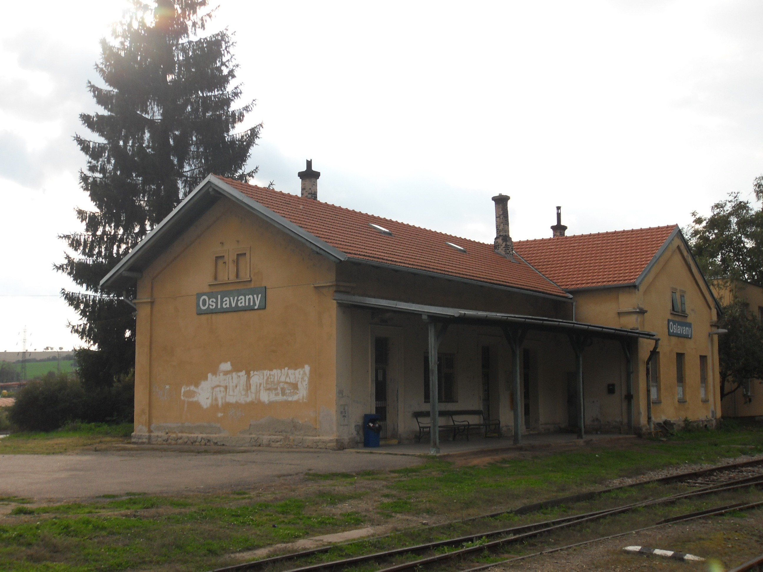 Oslavany train station, Brno-venkov District, Czech Republic